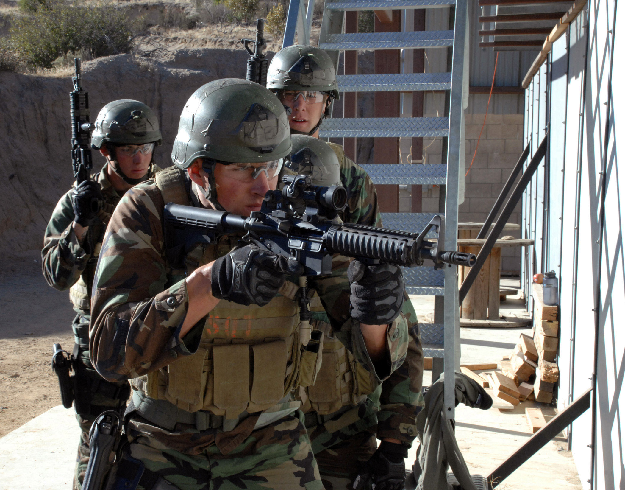 CAMPO, Calif. (Oct. 19, 2007) - A team of four SEAL trainees prepare to breach a room during a SEAL qualification training exercise. Students spend two weeks learning basic skills to secure a room from possible threats before earning their coveted SEAL trident pin. U.S. Navy photo by Mass Communication Specialist 2nd Class Christopher Menzie (RELEASED)